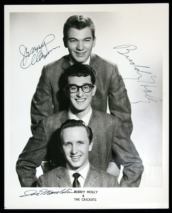 Buddy Holly & The Crickets publicity portrait for Coral Records.